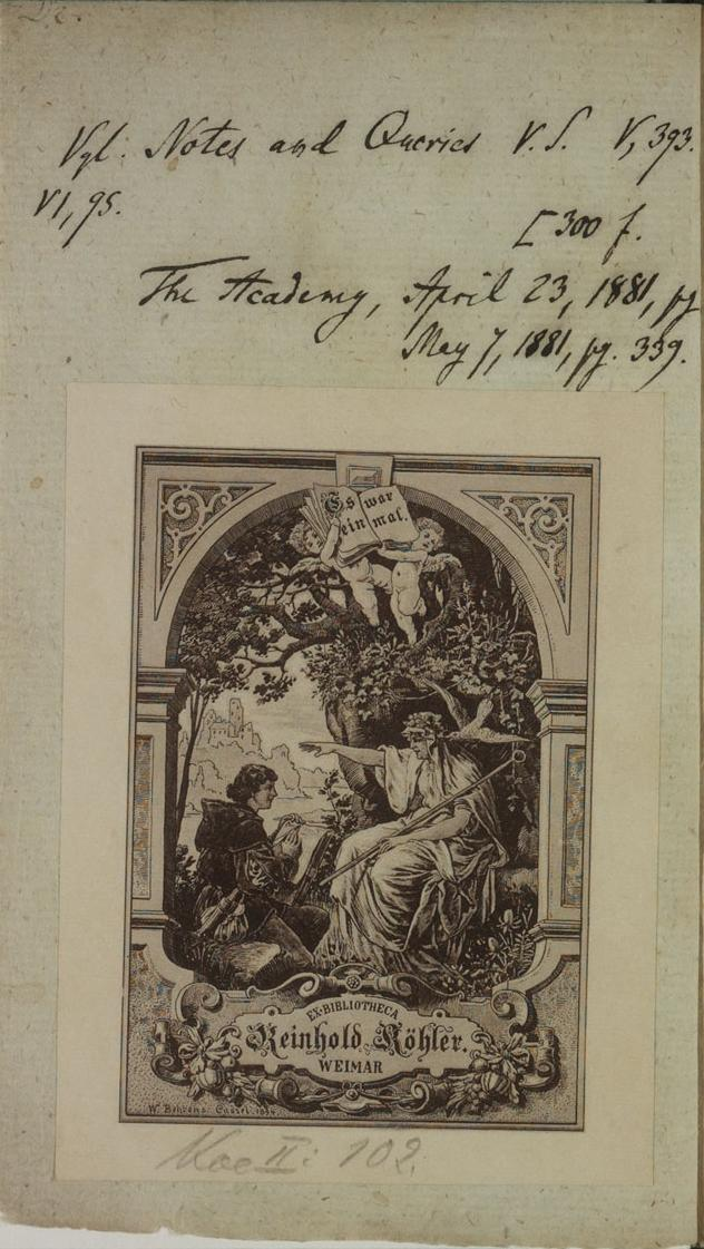 Der Vampyr: Eine Erzählung aus dem Englischen des Lord Byron. Nebst einer Schilderung seines Aufenthaltes in Mytilene Author John Polidori Start this BookTitle Der Vampyr: Eine Erzählung aus dem Englischen des Lord Byron. Nebst einer Schilderung seines Aufenthaltes in MytilenePublisher VossLanguage GermanPublication date 1819publication_date QS:P577,+1819-00-00T00:00:00Z/9Place of publication LeipzigSource HAAB WeimarPermission(Reusing this file) This work is in the public domain in its country of origin and other countries and areas where the copyright term is the author's life plus 100 years or fewer. This work is in the public domain in the United States because it was published (or registered with the U.S. Copyright Office) before January 1, 1925. This file has been identified as being free of known restrictions under copyright law, including all related and neighboring rights.